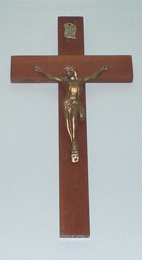 A small crucifix of mine